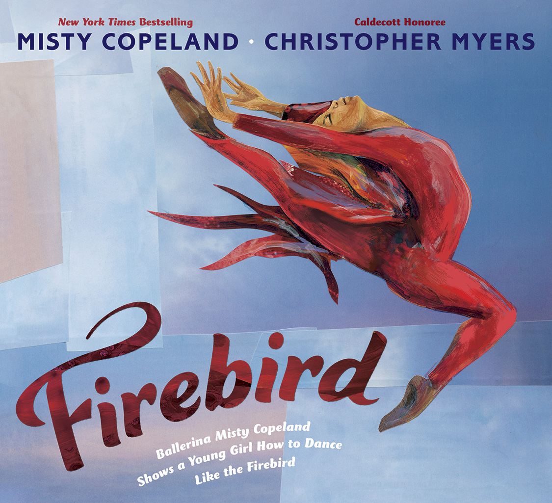 Misty Copeland's Firebird cover